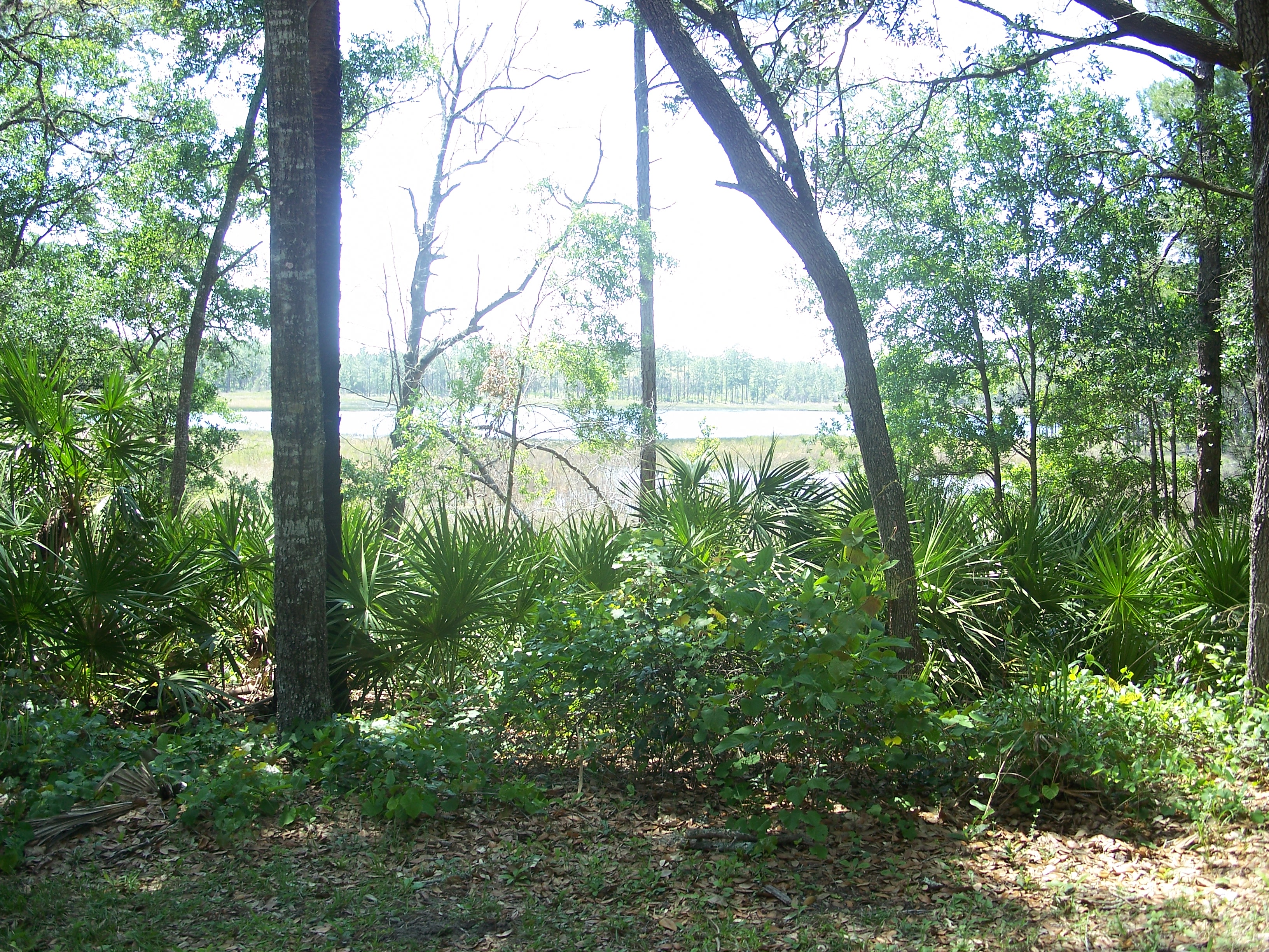 Ocala National Forest: Clearwater Lake Recreation Site